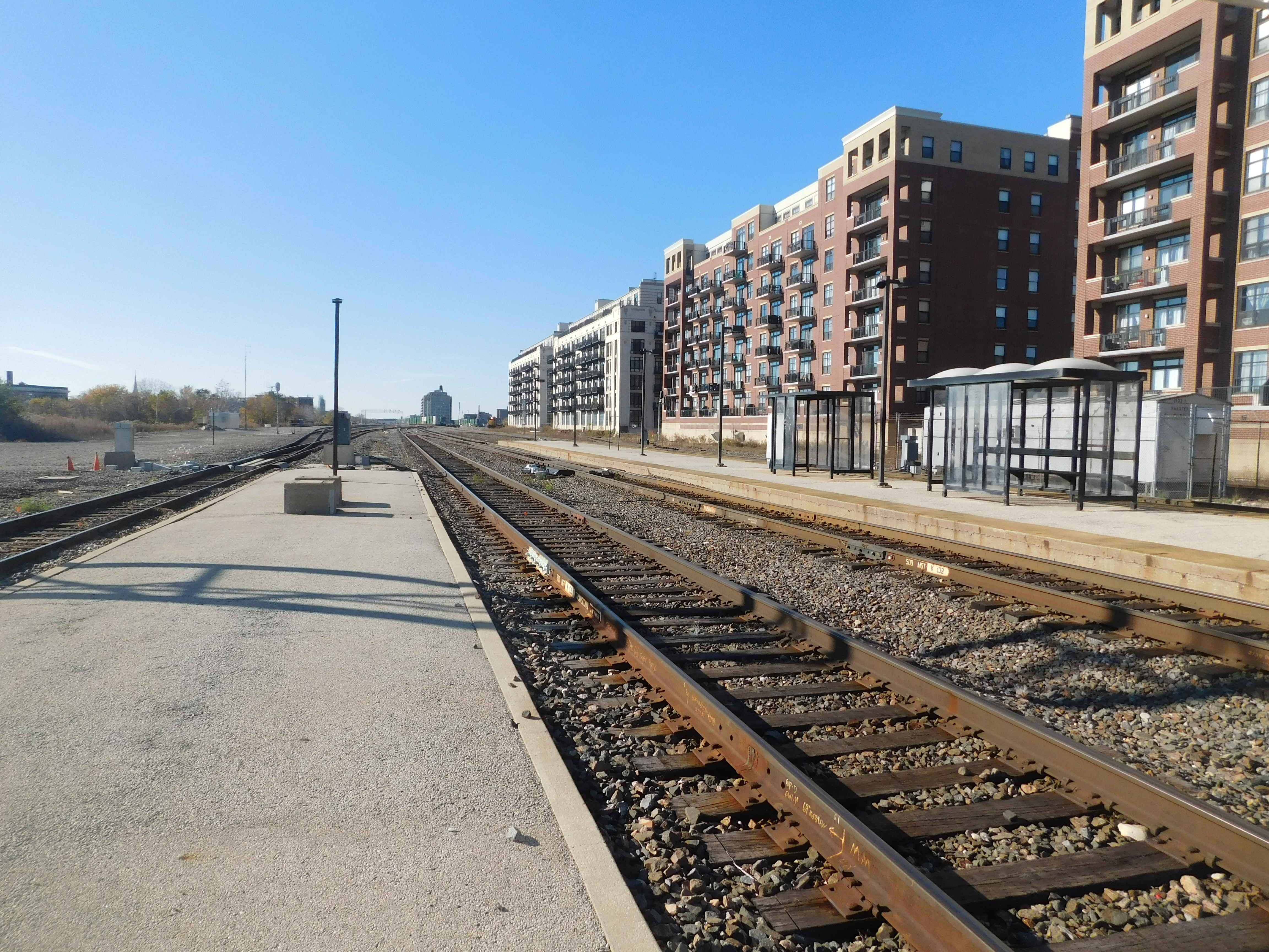 The Halsted Street-University of Illinois at Chicago station for Metra in November 2016.